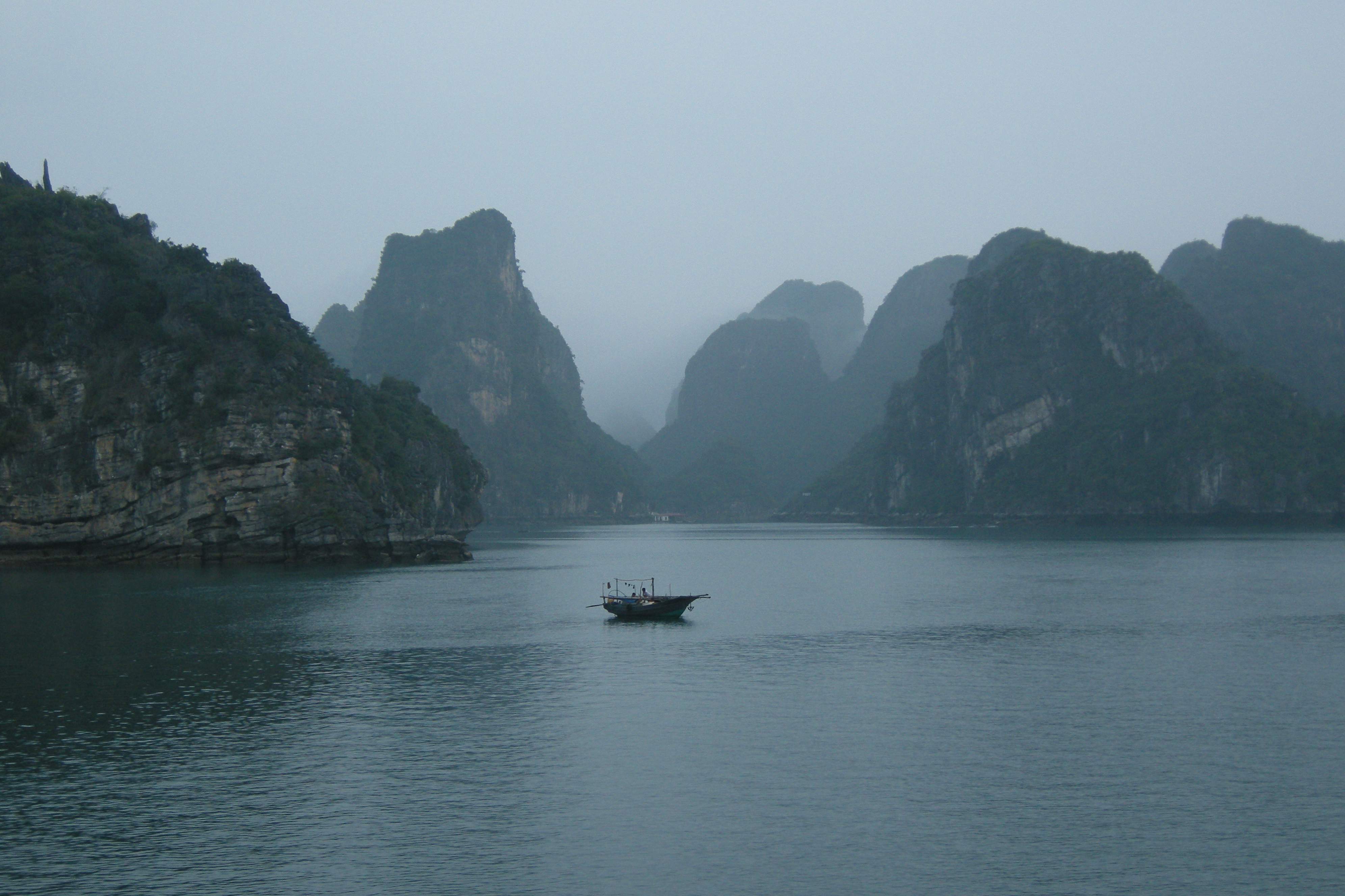 Ha Long Bay (Halong Bay) in North Vietnam. Ha Long in Vietnamese means “descent of the dragon”. Many legends are built around the name.